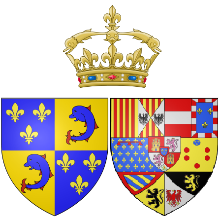 Arms of Marie Thérèse Raphaëlle of Spain as Dauphine of France